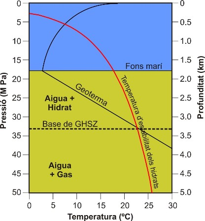 gas hydrate stability field